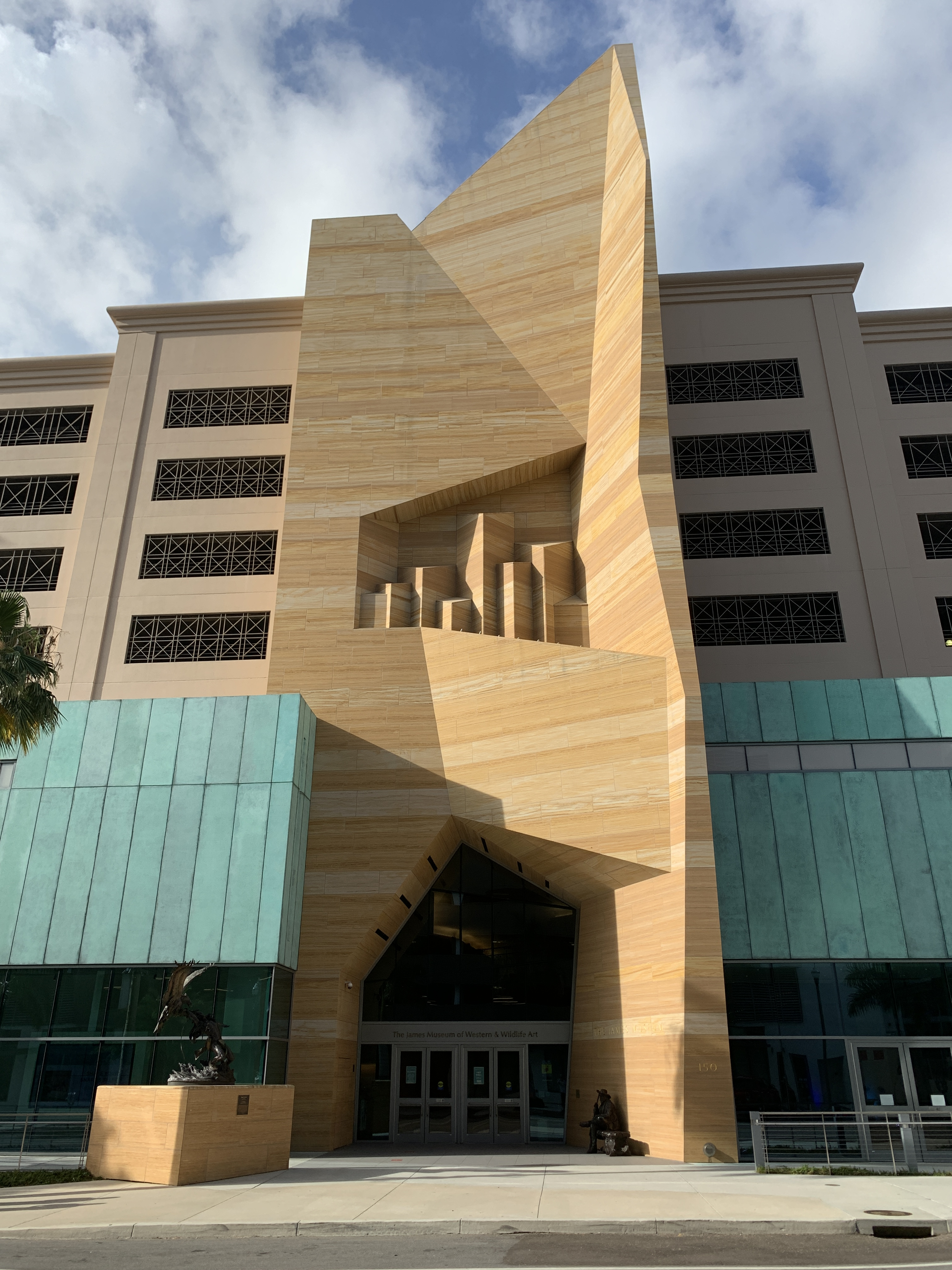 James Museum of Western and Wildlife Art